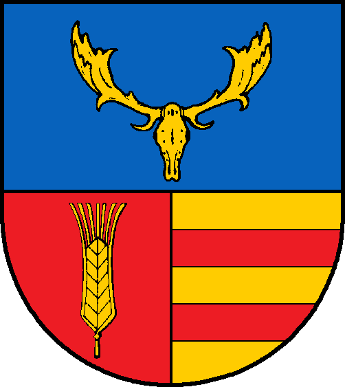 Coat of arms of the municipality Lensahn in Schleswig-Holstein, Germany.